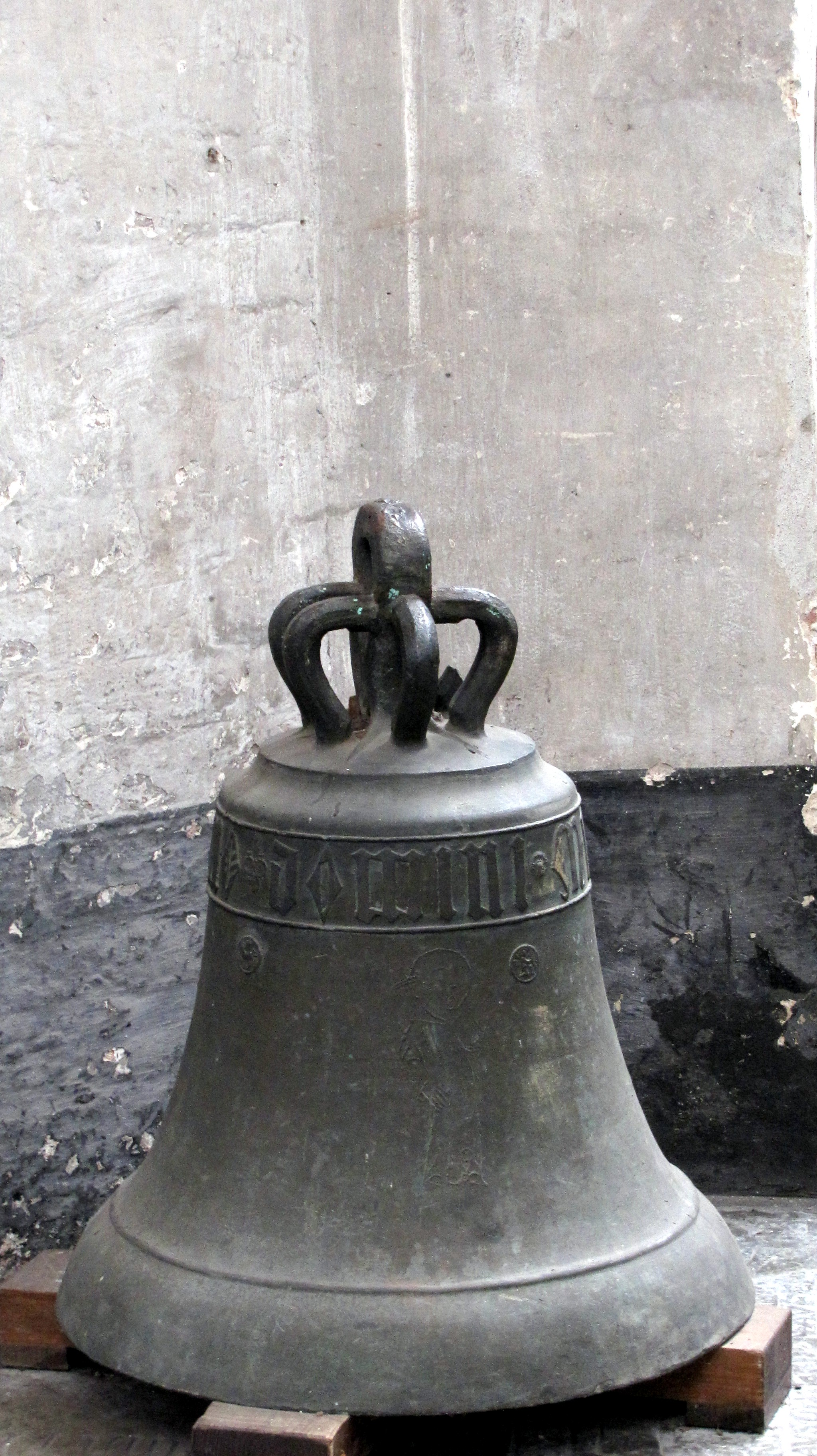 Bell of Katharinenkirche, Lübeck, 1399, cast by Johannes Reborch